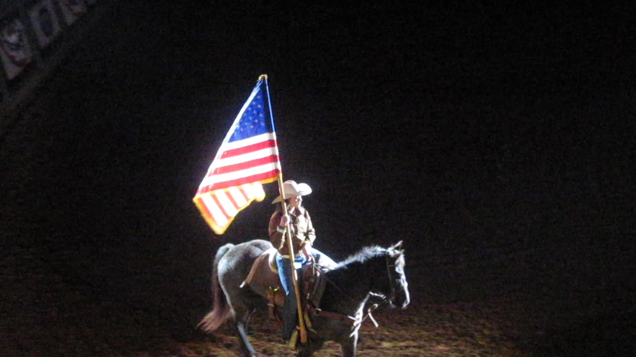 I took photo at Cowtown Coliseum with Canon camera.